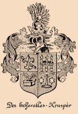 Blason